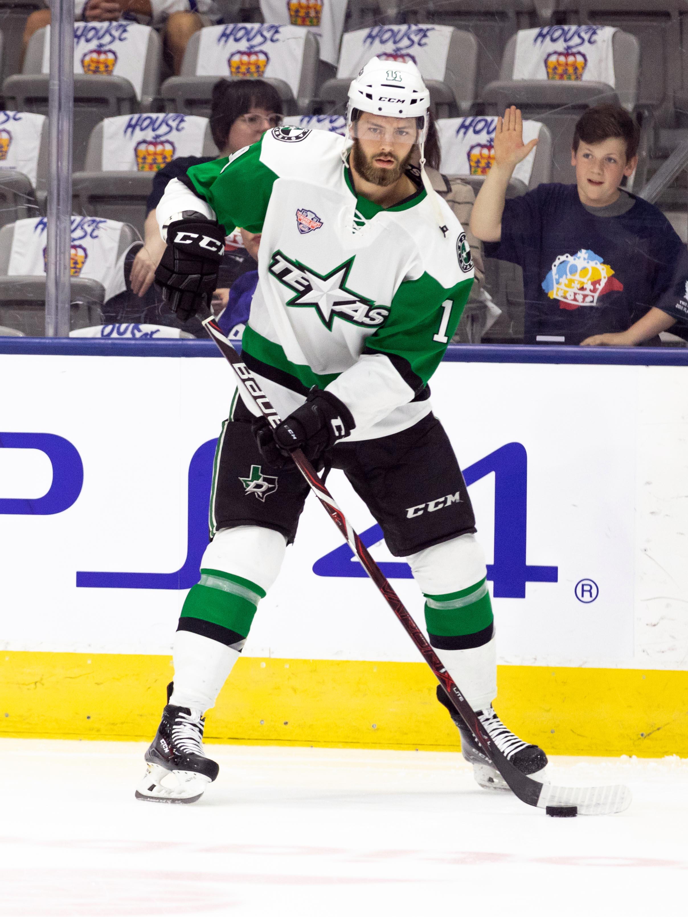 Photo: Thomas Skrlj/AHL